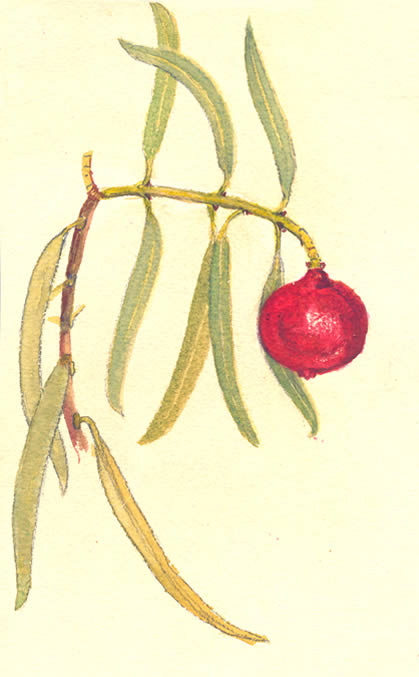 24x15cm (prev. Fusanus acuminatus ) (Quandong) ‘more crimson really’ (Olive Pink) painted at Beltana, S.A (Cropped)